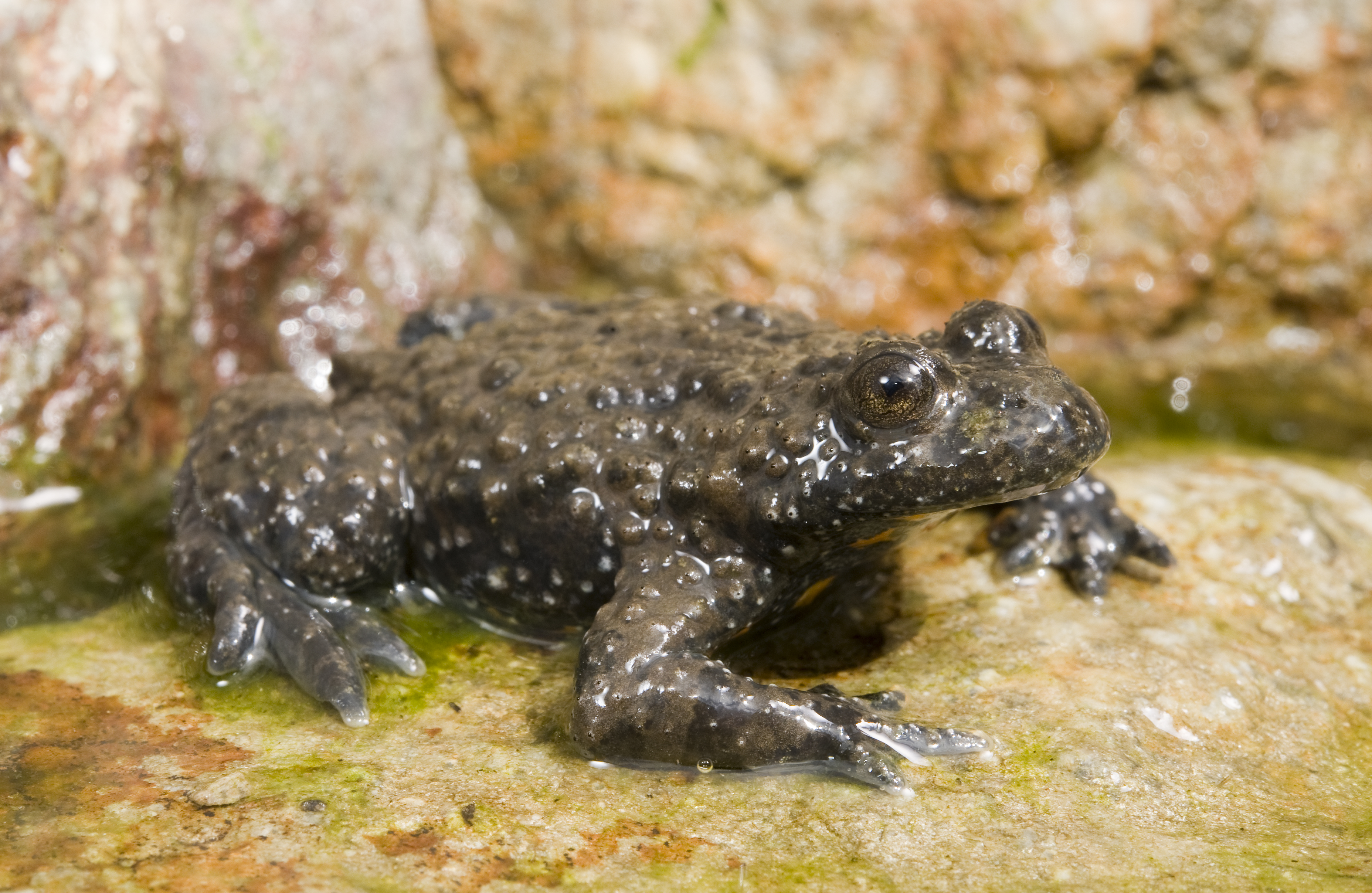 Bombina variegata pachypus